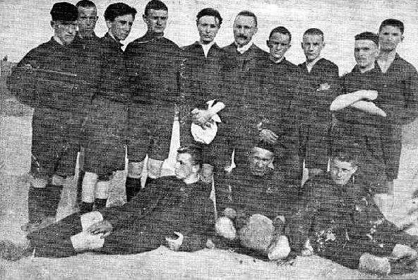 Former polish football club Pogoń Stryj (now Stryi, Ukraine) in 1908